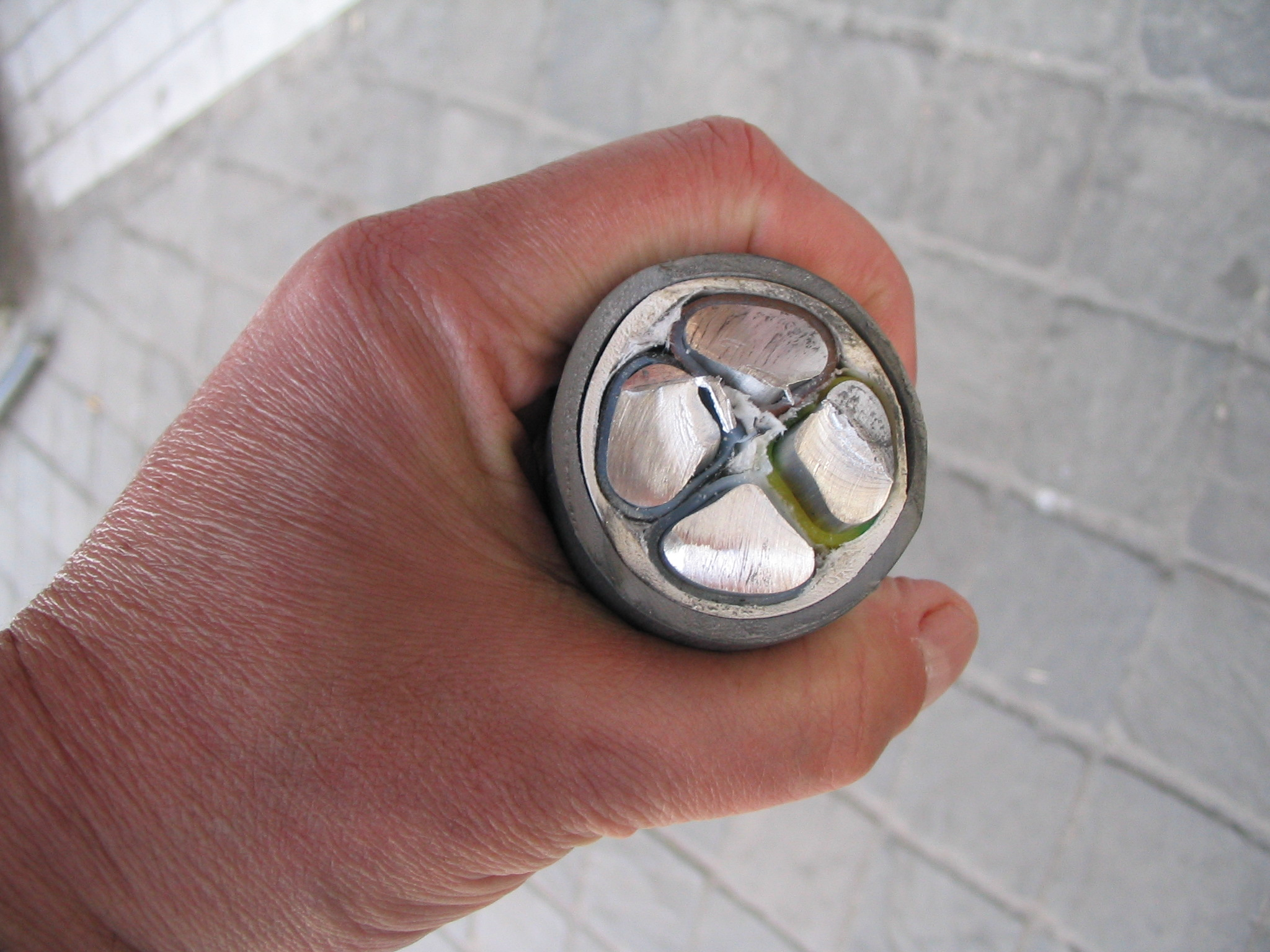 Aluminium electric cable 230 Volts 150 mm² x 4